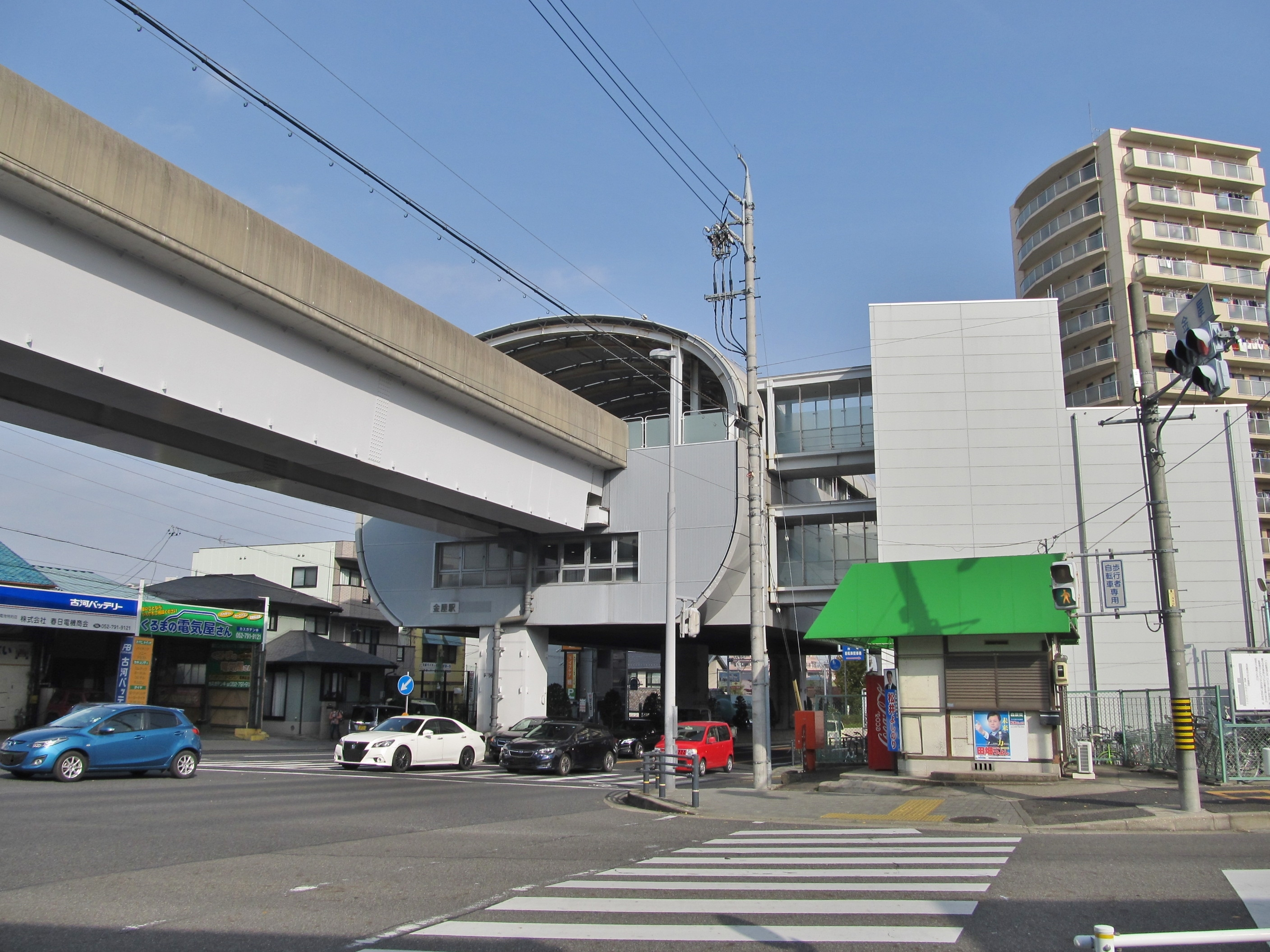 Nagoya Guideway Bus Yutorito Line Kanayma Station